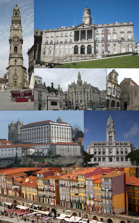 montage of Porto